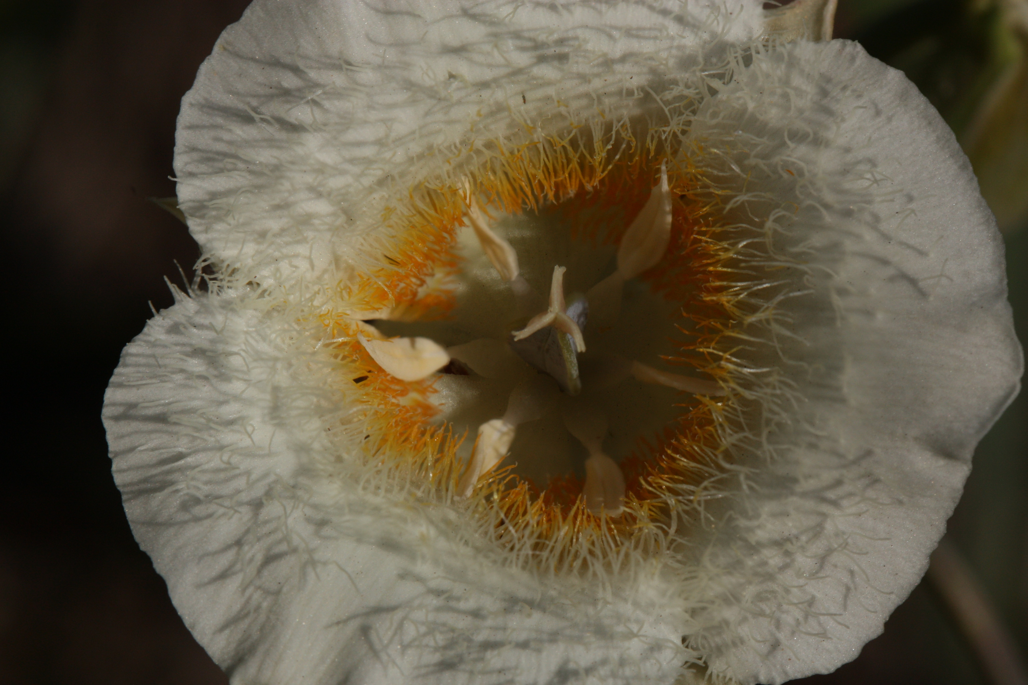 Subalpine Mariposa Lily, Mountain Mariposa; Focus stacking (using Helicon Focus).Please see "Other versions" for source images. Viewpoint location: Sunrise Peak Trail 262 Dark Divide Viewpoint elevation: 1515 meter (4969 ft) Location source: Garmin GPSmap 60CSx Location Datum: WGS84